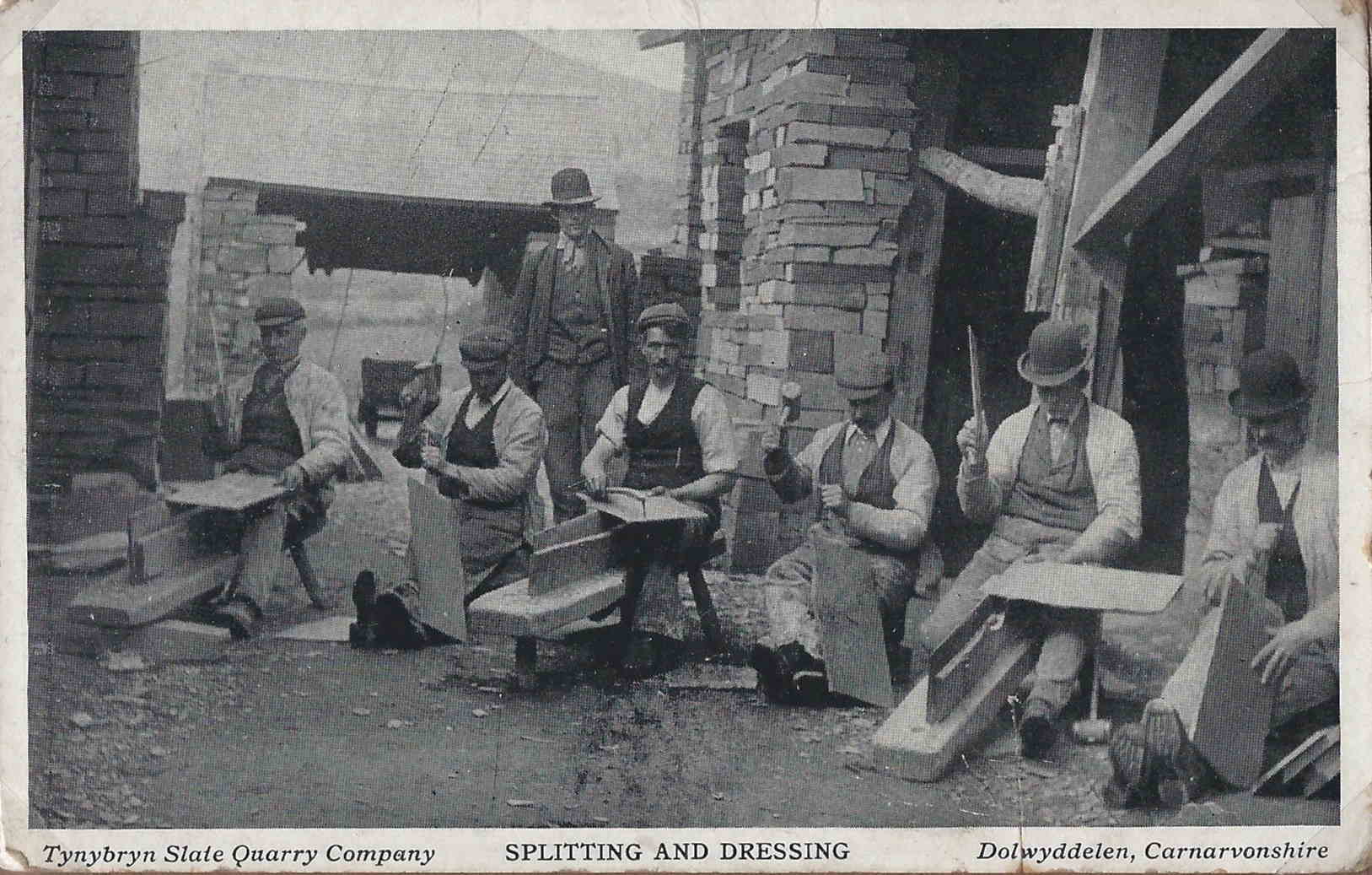 Quarrymen pose with their tools at Ty'n-y-bryn slate quarry, Dolwyddelan, before 1914